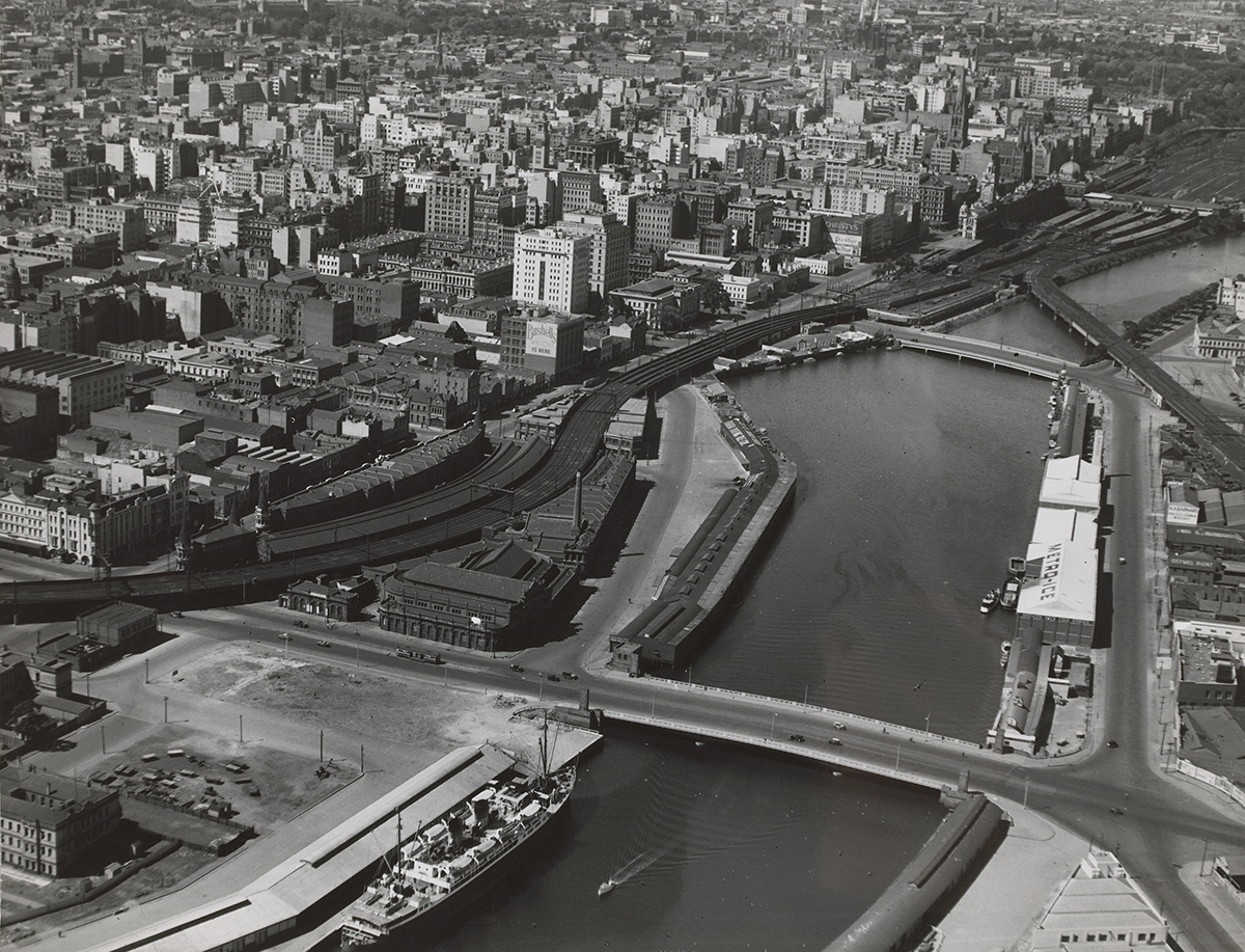 ca. 1936-39. A view along the Yarra from above Spencer Street bridge towards the Queen Street bridge. A coastal steamer is berthed at the wharf adjacent to the Spencer Street bridge. Metro-Ice works is visible on the south bank of the Yarra.